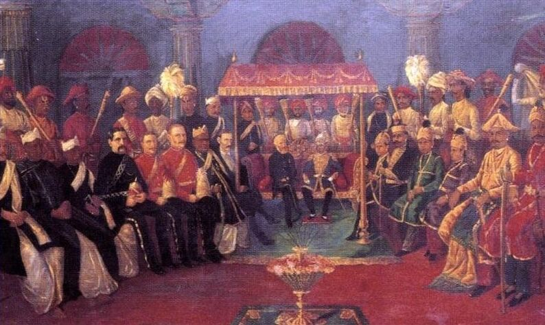 Durbar of Puddukottai Maharaja with British officials.